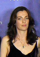 Santa Barbara International Film Festival Opening Night of Darling Companion: Diane Keaton, Ayelet Zurer and Kevin Kline